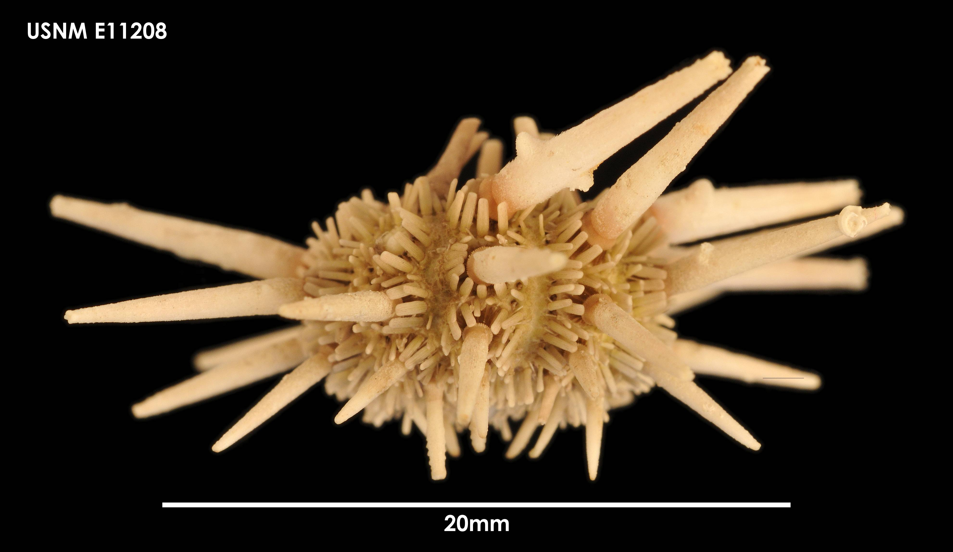 PRESERVED_SPECIMEN; Preparations: Dry; Goniocidaris umbraculum Hutton, 1878; Individual count: 3; Type status: (no data); Identified by: Chesher, R. H.; Event date: 19650219T00:00:00Z; Additional description: Lateral view, dry specimen